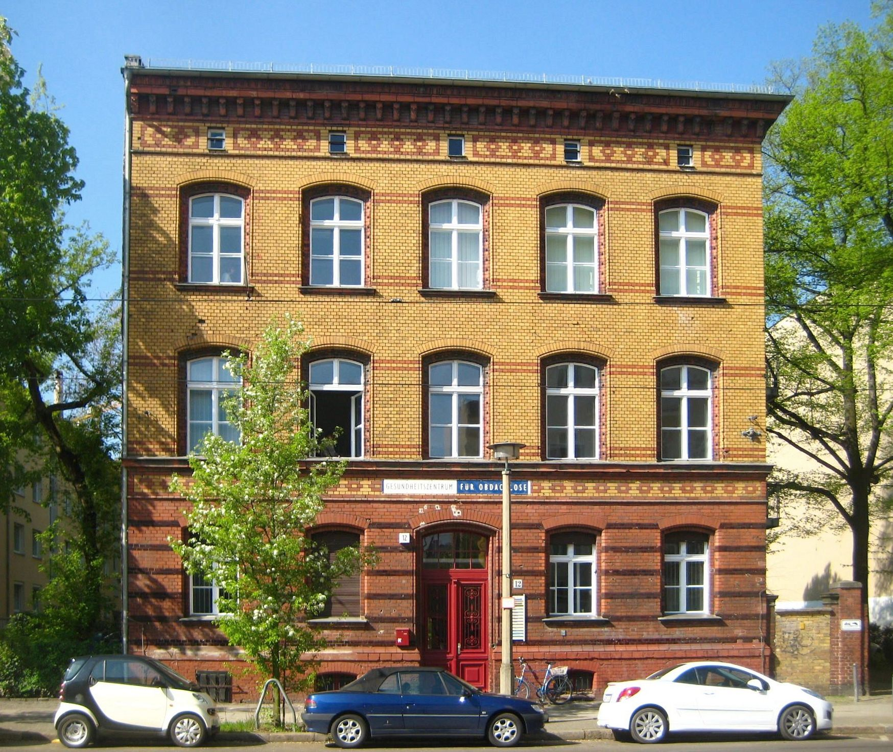 Principal residence of the former 111th and 186th Municipal School at Pflugstraße No. 12 in Berlin-Mitte. The school and the principal residence were built from 1889 to 1890 to a design by Hermann Blankenstein. The school buildings were destroyed in WWII whereas the principal residence has survived. It is now used as medical center for homeless people. The building has been designated as a historic landmark.